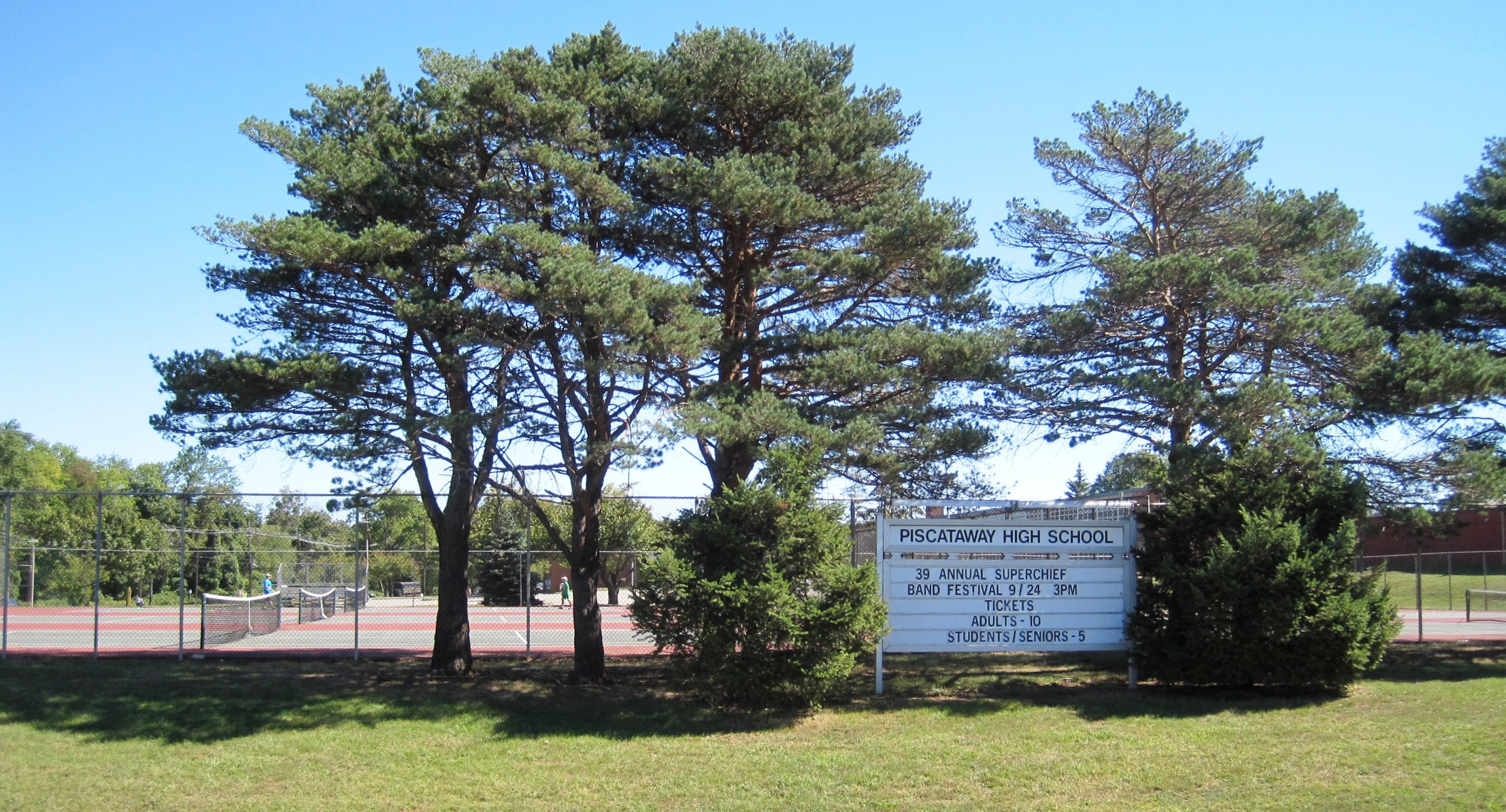 Photo showing Piscataway High School in Piscataway Township, New Jersey. Photo taken from northbound Hoes Lane (New Jersey Route 18) before Behmer Road.